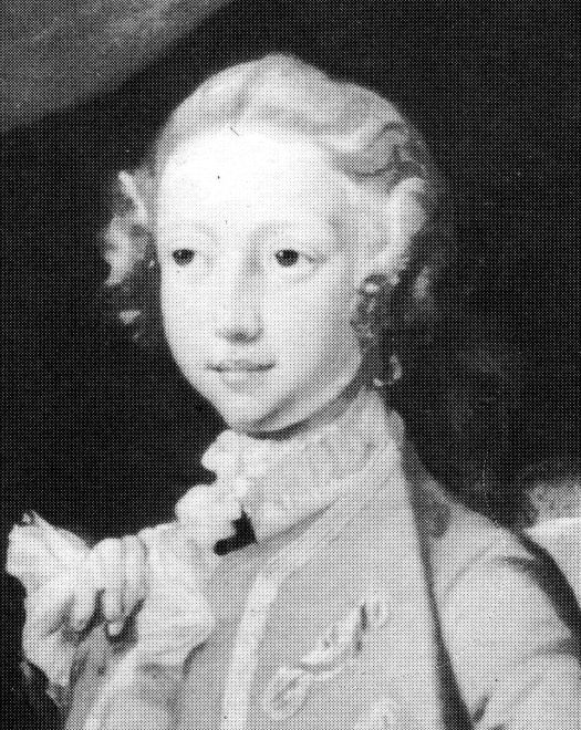 Prince Edward Augustus, Duke of York and Albany. Source: [1]